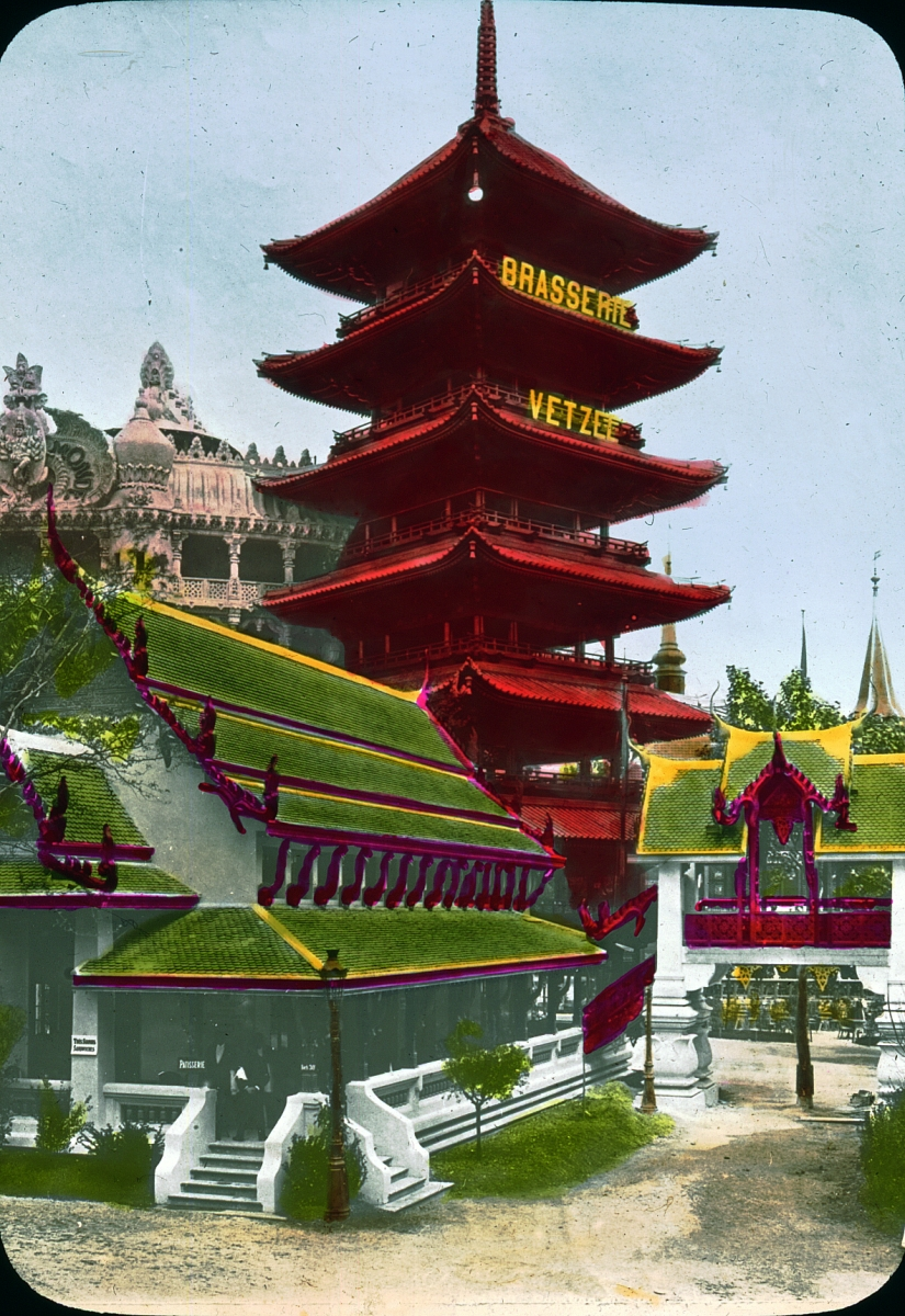 Paris Exposition: Tour du Monde and Siamese Pavilion, Paris, France, 1900. [Tour du Monde and the Pavilion of Siam]Brasserie Wetzel. Paris Exposition. Brooklyn Museum Archives.